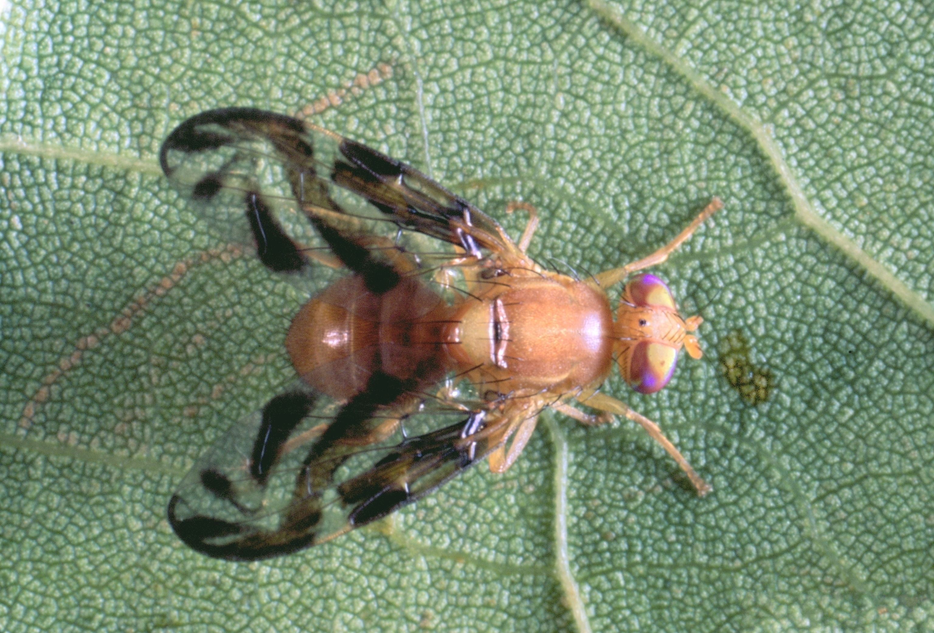 Anastrepha suspensa Loew Common Name: Caribbean fruit fly Photographer: Division of Plant Industry Archive, Florida Department of Agriculture and Consumer Services, United States Contact: Jeffrey W. Lotz, Florida Department of Agriculture and Consumer Services Descriptor: Adult(s) Image taken in: Florida, United States